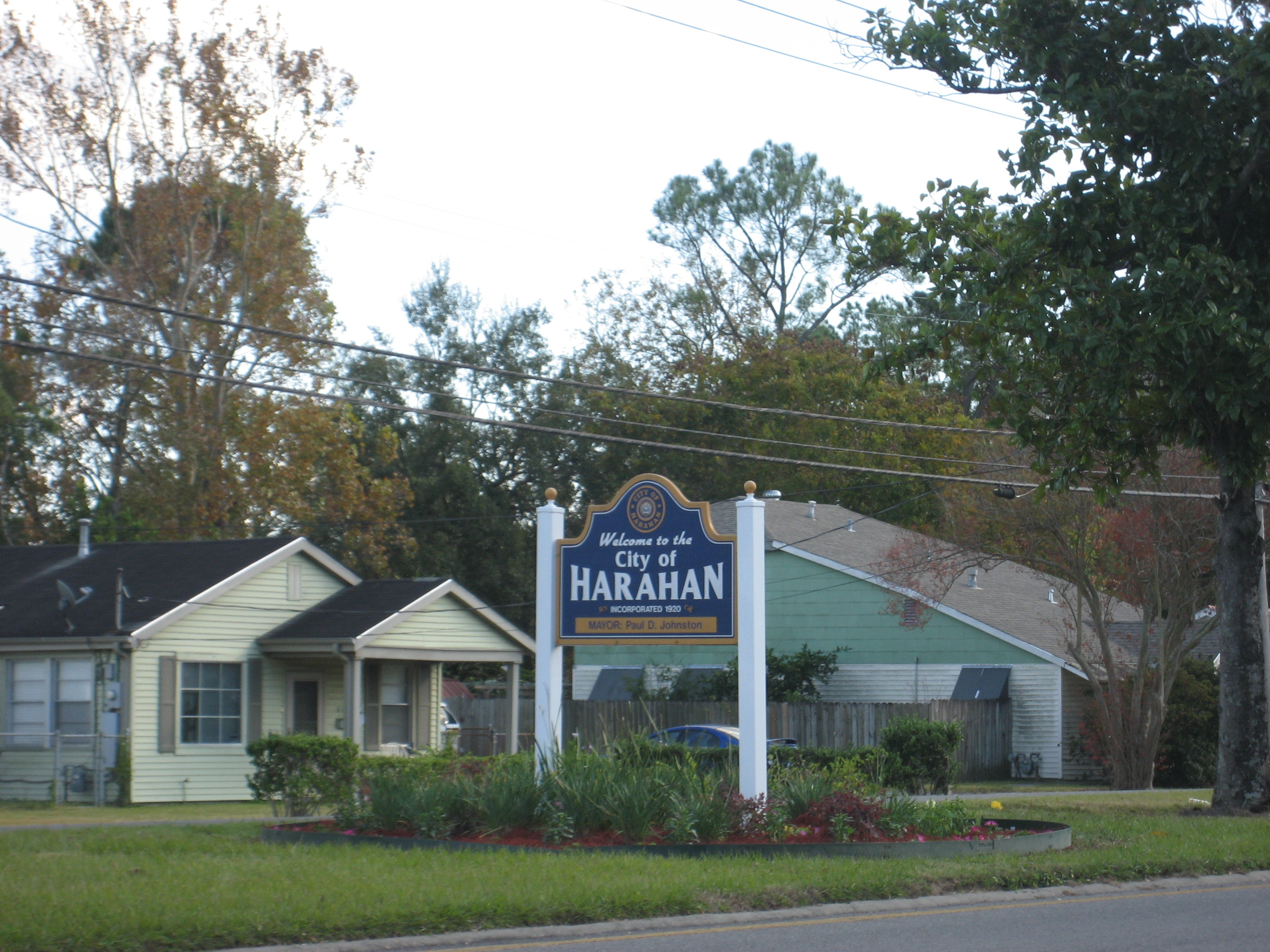 Harahan, Louisiana. Welcome sign on Jefferson Highway at upriver boundry with River Ridge.